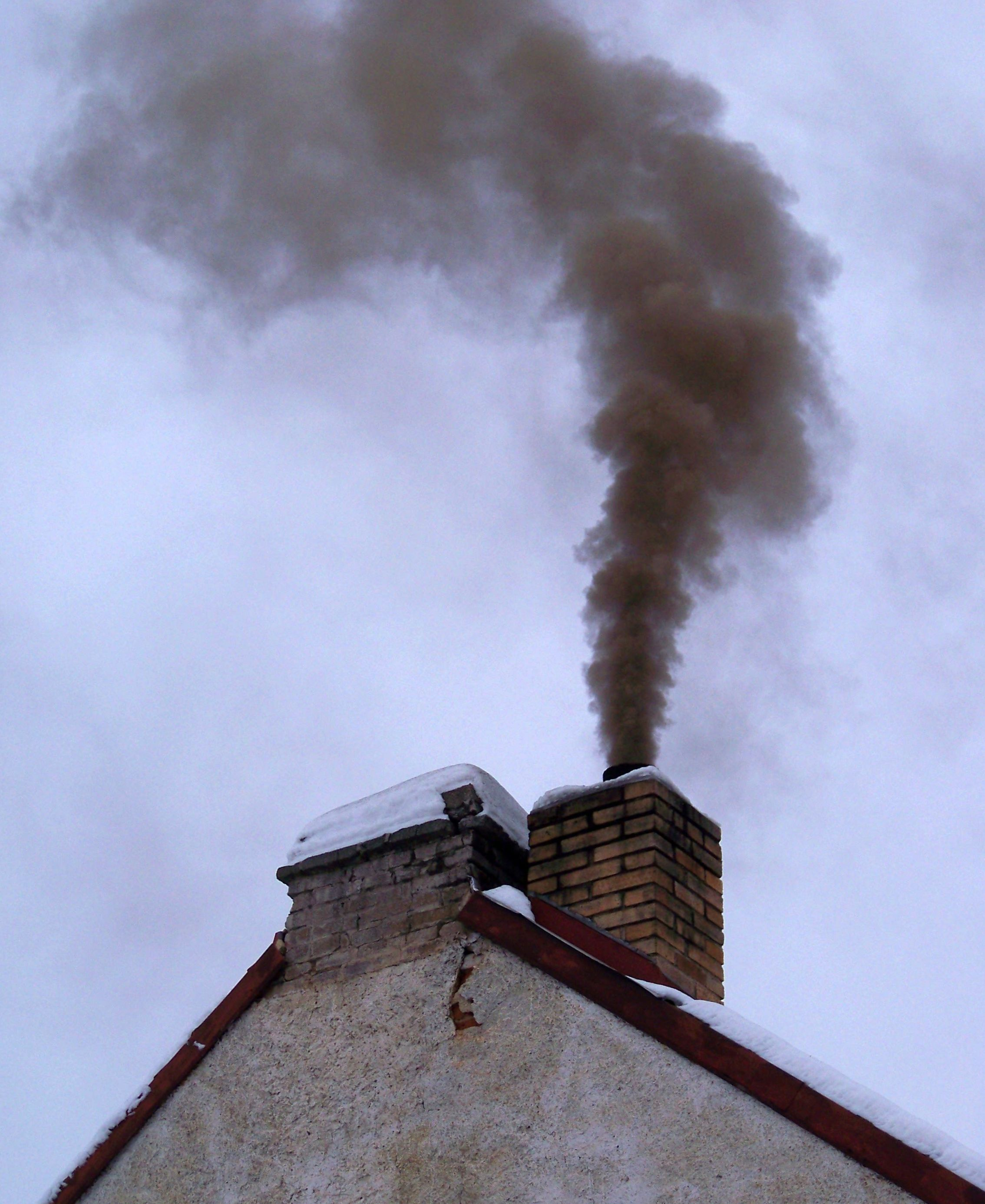 Srbsko, Beroun District, Central Bohemian Region, the Czech Republic. Smoke.